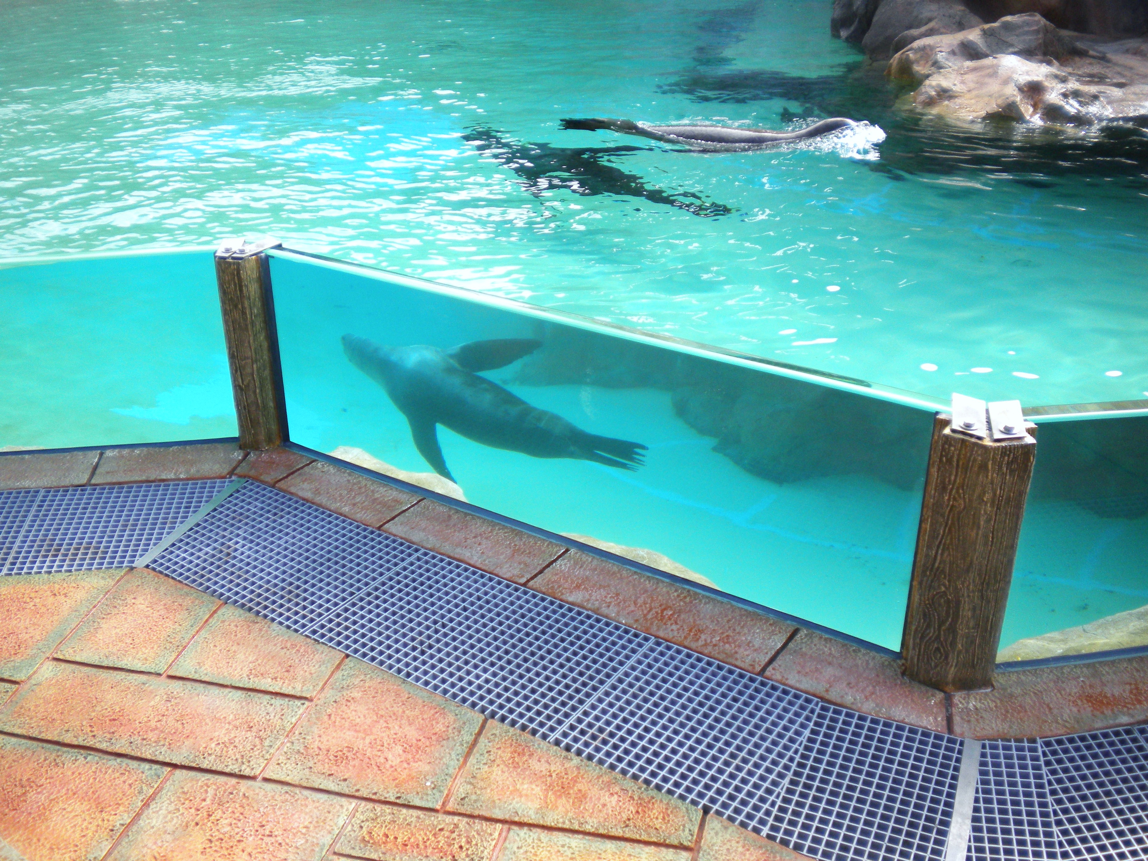 Siam Park.